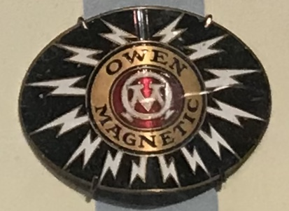 Owen Magnetic radiator emblem